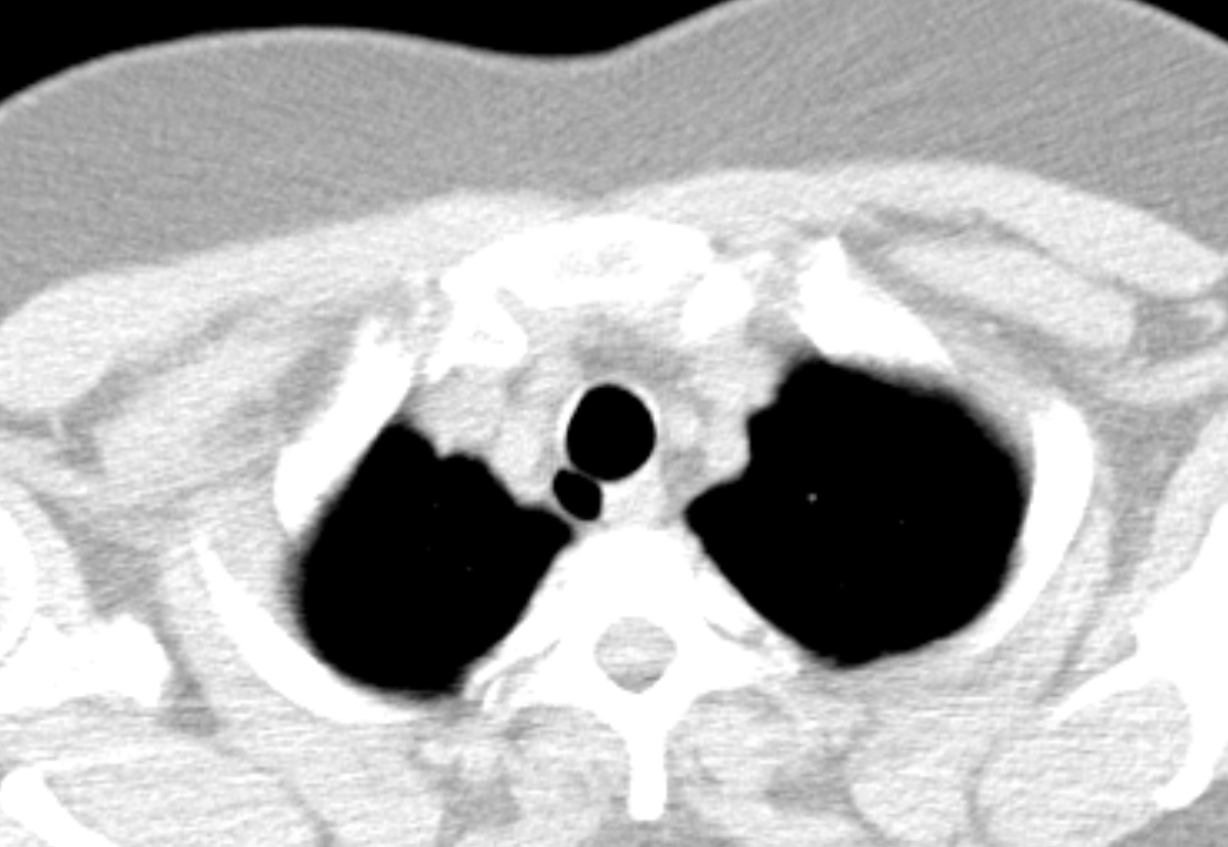 Tracheal diverticulum as seen on axial CT imaging (Siemens Somatom Sensation 64)